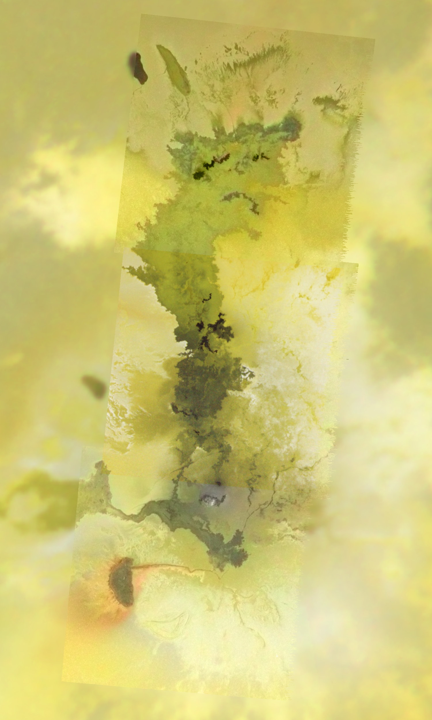 Mosaic of images from the Galileo spacecraft of the Amirani lava flow field on Jupiter's moon Io 27ISAMRANI01 Image Time: 2000-02-22 14:39:54.406 Resolution: 207 m/pixel Center Latitude: 25 North Center Longitude: 115 West Filters Used: IR-7560, Green, Violet